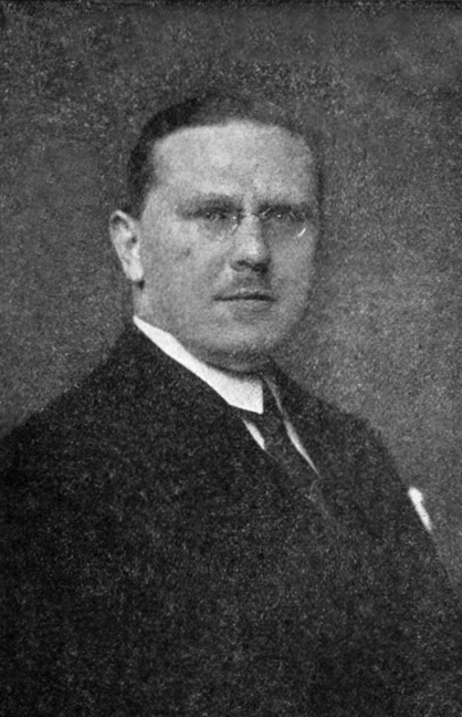 Felix Tauer (1893–1981) was Czech orientalist.